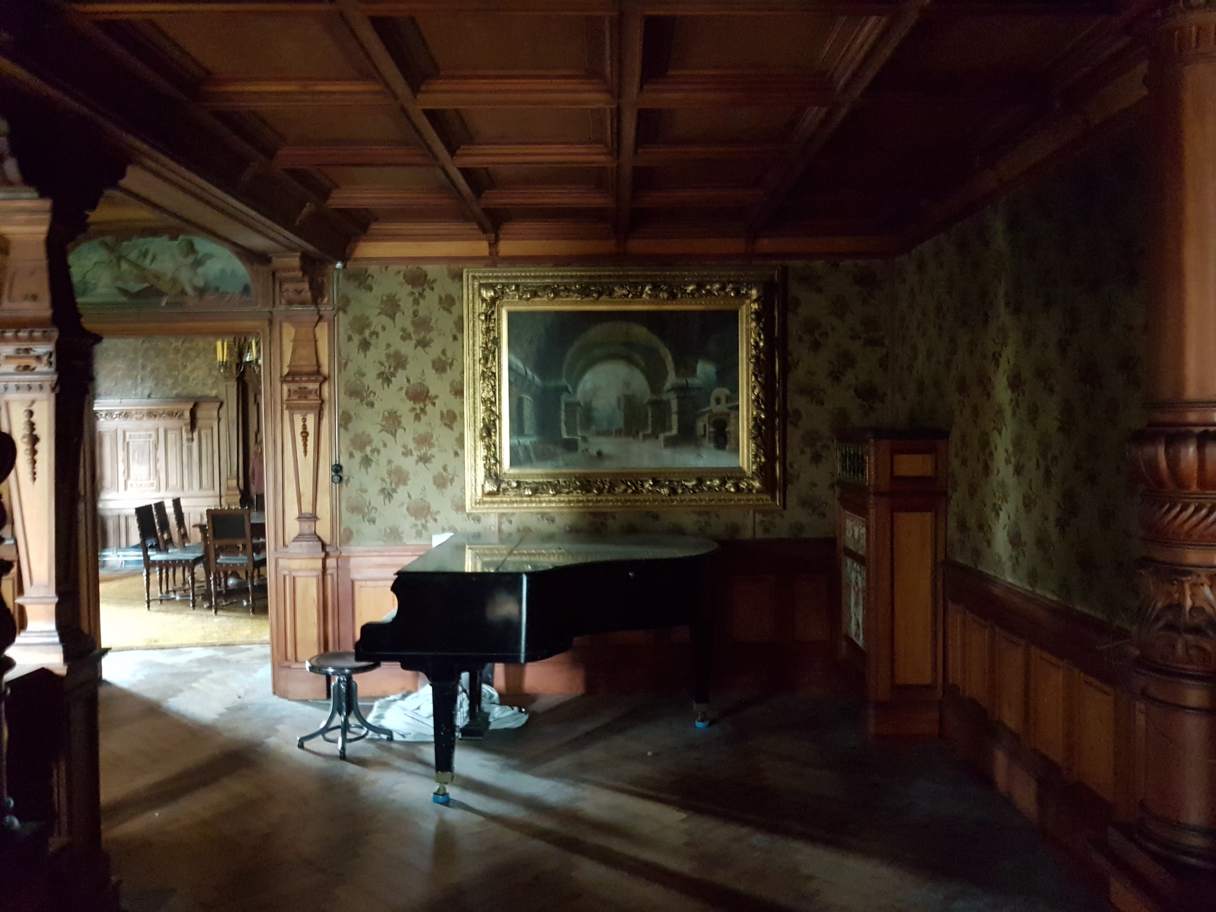 Villa Ivan Rosenthal, Radetzkystraße No. 1 in Hohenems, Vorarlberg, Austria. Built in 1890, main building with hipped and cross-gabled roof, cube-shaped with klassizisierender entrance section, side wings, Wirtschaftstrakt with half-timbered.